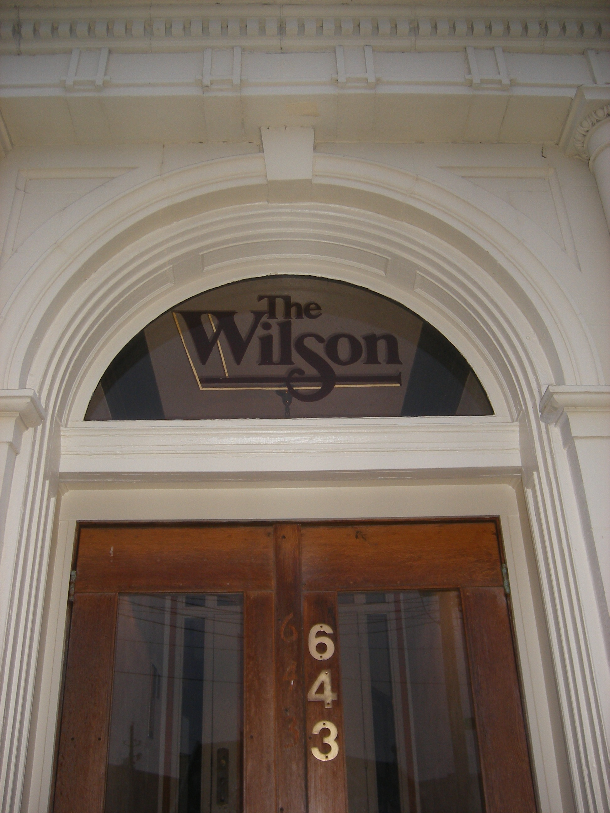 Door and original 1905 logo at the main entrance to The Wilson, located at 643 Fort Wayne Avenue in Indianapolis, Indiana, United States. Built in 1905, it is listed on the National Register of Historic Places as one of the "Apartments and Flats of Downtown Indianapolis Thematic Resources".